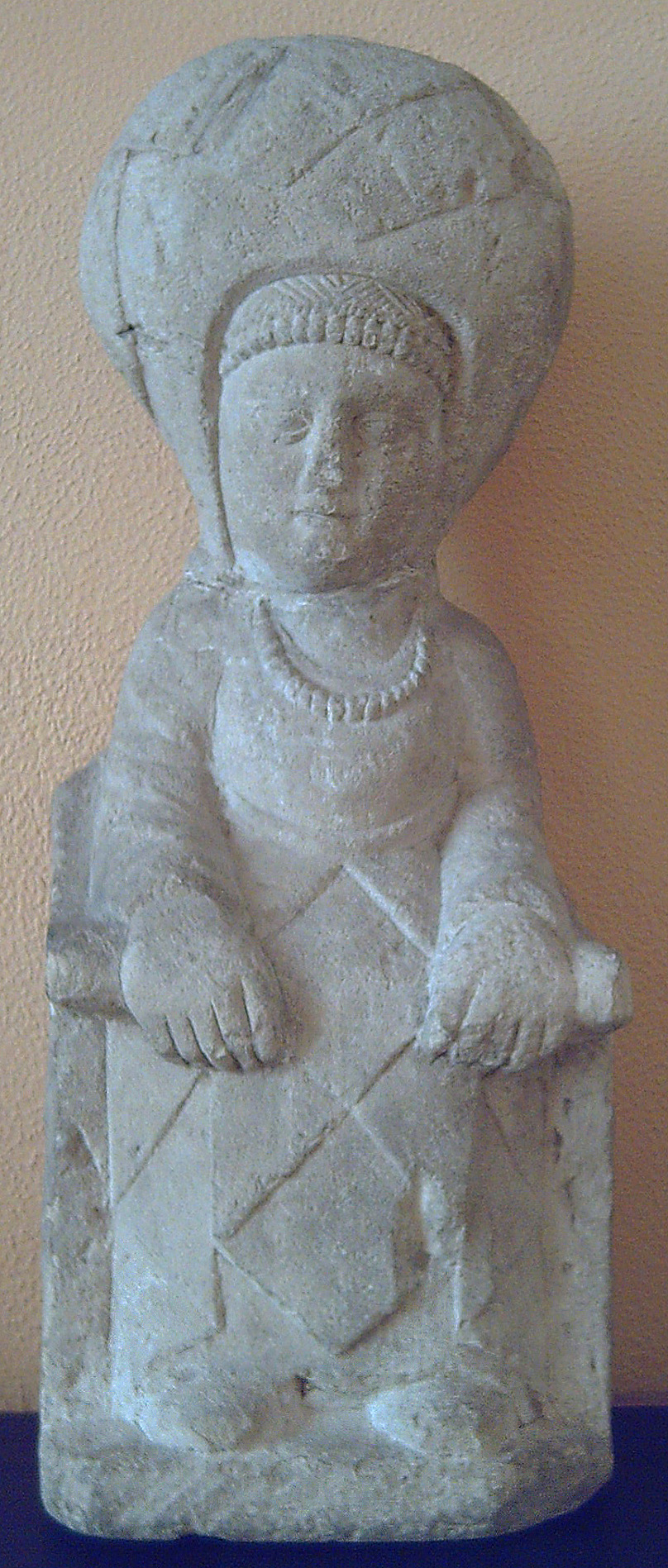 A dama sedente ("sitting lady"). Iberian sculpture.